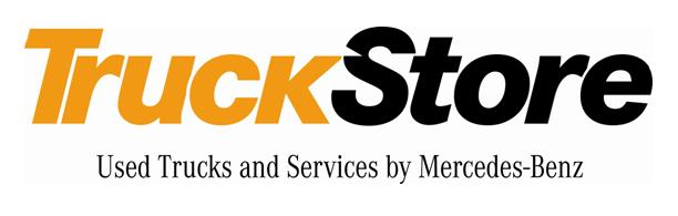 TruckStore Logo